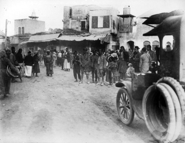 Photo of Hama city, in Syria, in December 1918. Troops from the Royal Gloucestershire Hussars can be seen in the photograph. (Image donated to the AWM from the IWM, Image Q12470)